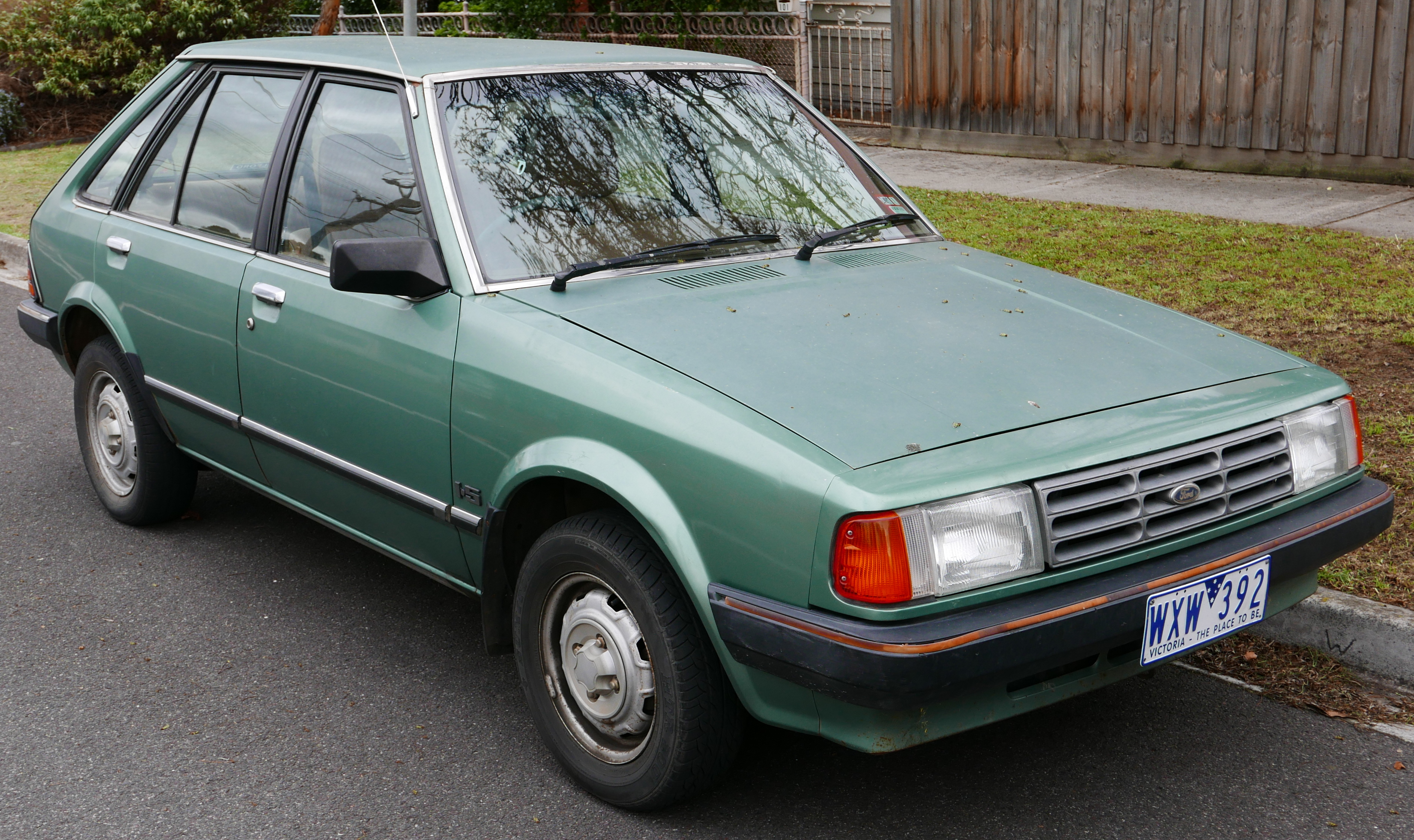 1984 Ford Laser (KB) GL 5-door hatchback. Photographed in Northcote, Victoria, Australia. Vehicle registration enquiry results Jurisdiction Victoria Registration WXW392 Chassis code UG4RCB77278Q Engine code E5955108 Compliance date 1984-02 Year of manufacture 1984